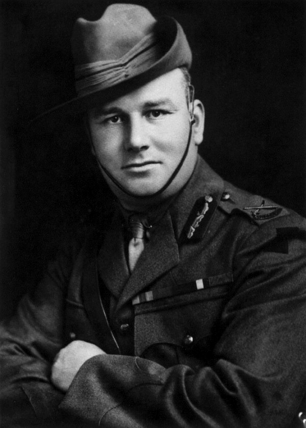 Portrait of Australian Brigader-General Harold "Pompey" Elliott (1878–1931).